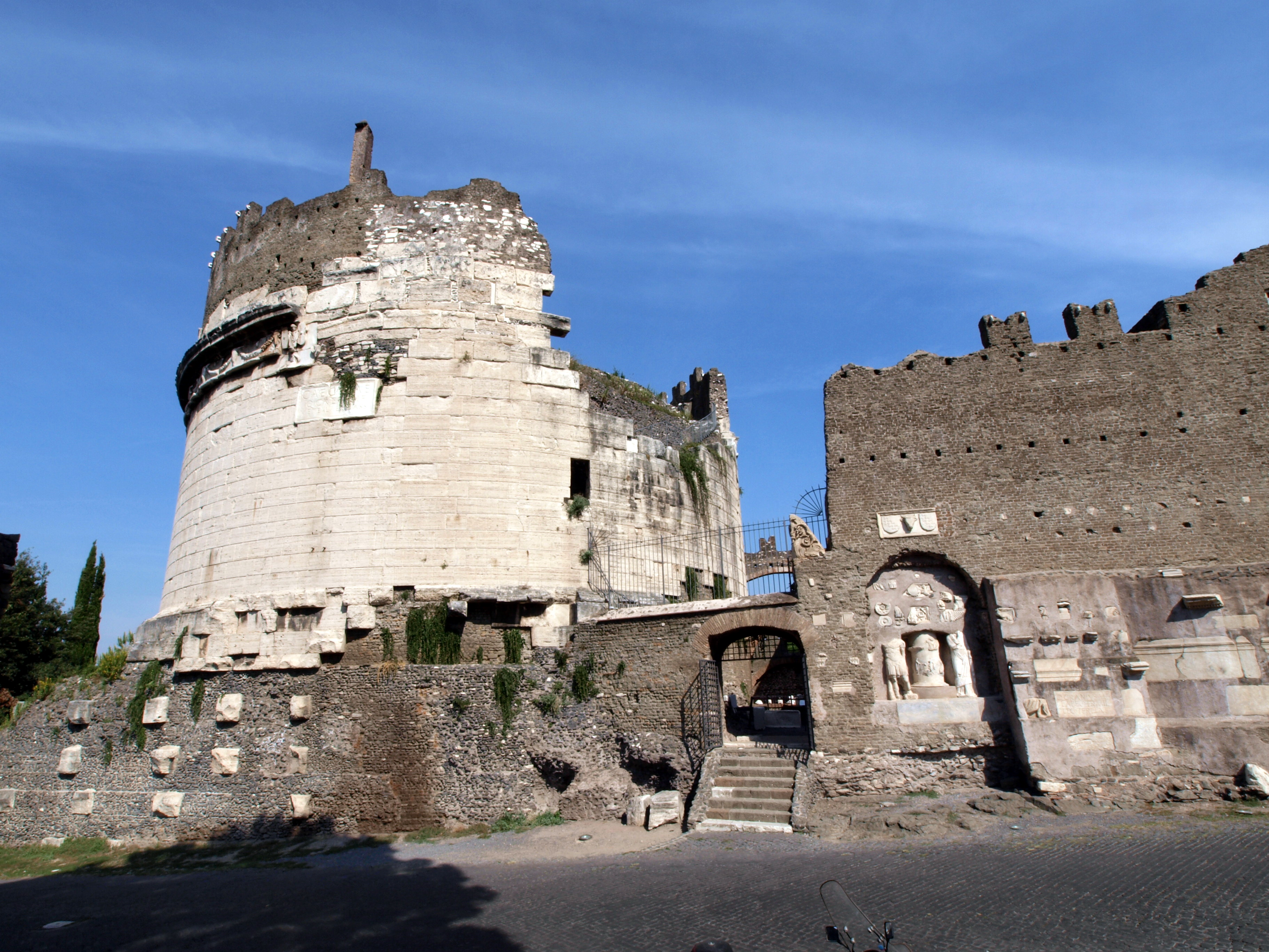 Photographed at the Via Appia Antica